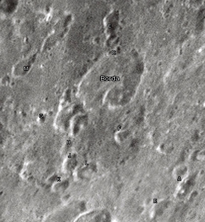 Borda lunar crater as seen from Earth with satellite craters labeled